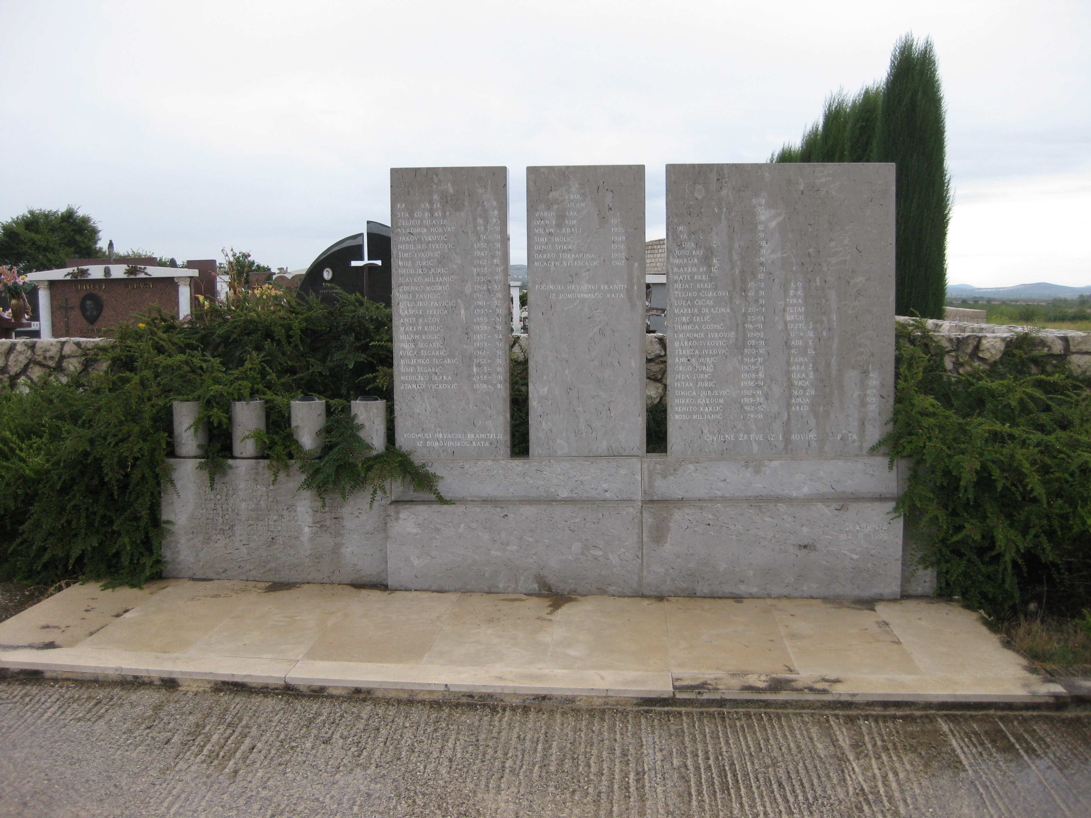 Memorial to the victims of the Skabrnja massacre